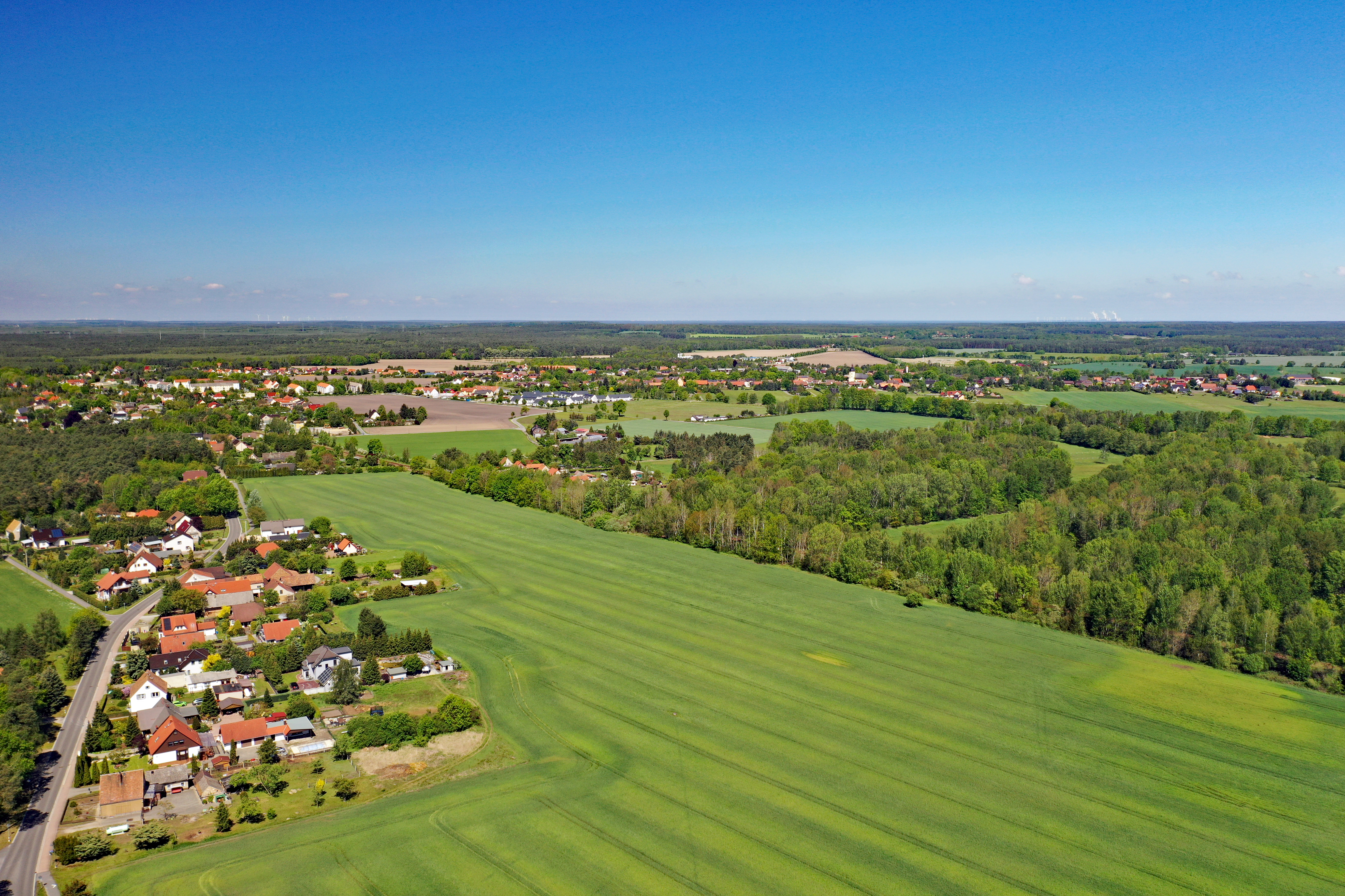 Schleife (Saxony, Germany) Hornjoserbsce: Powětrowy wobraz Slepoho